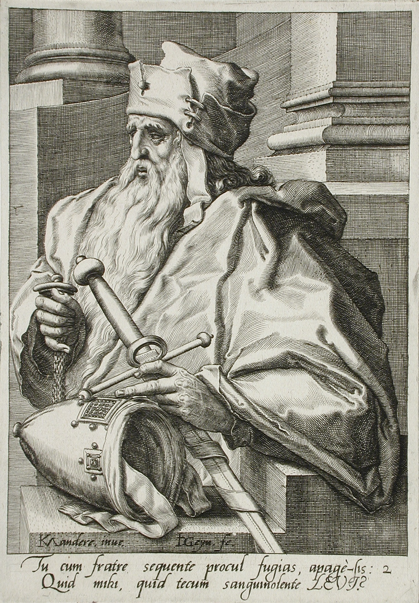 Holland, circa 1590 Series: The Twelve Sons of Jacob, pl. 2 Edition: First edition Prints; engravings Engraving Mary Stansbury Ruiz Bequest (M.88.91.296b) Prints and Drawings